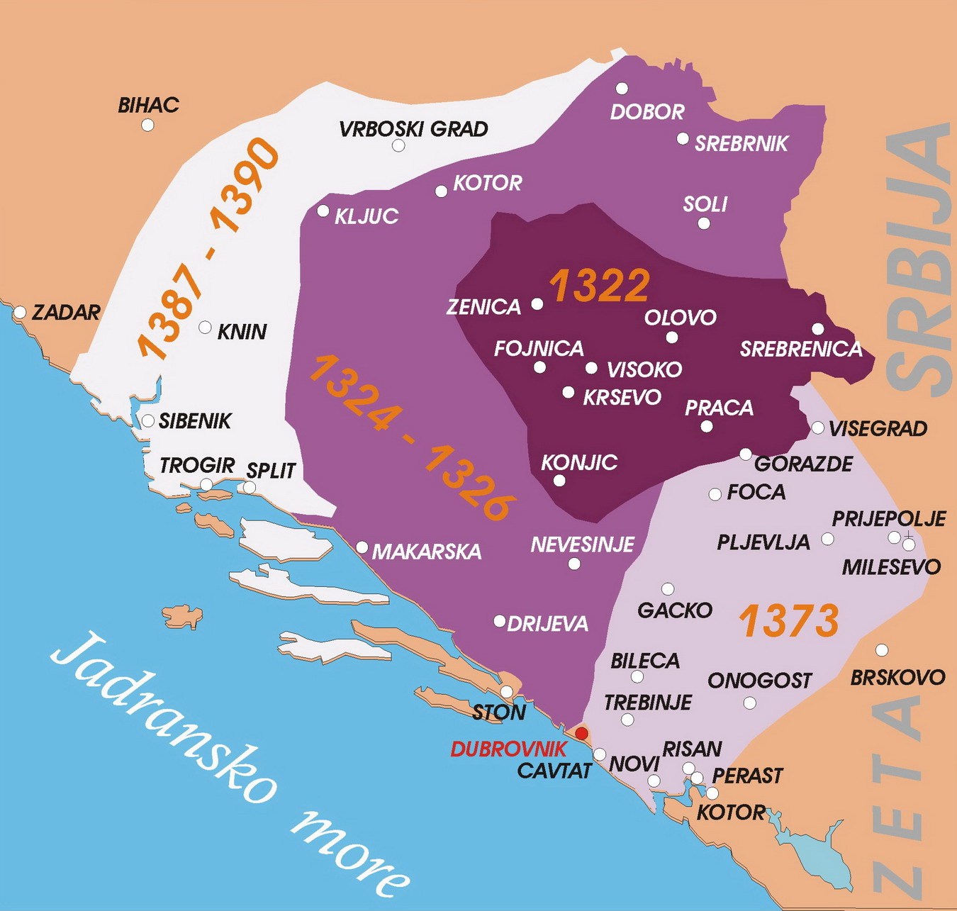 Kingdom of Bosnia in XIV century.